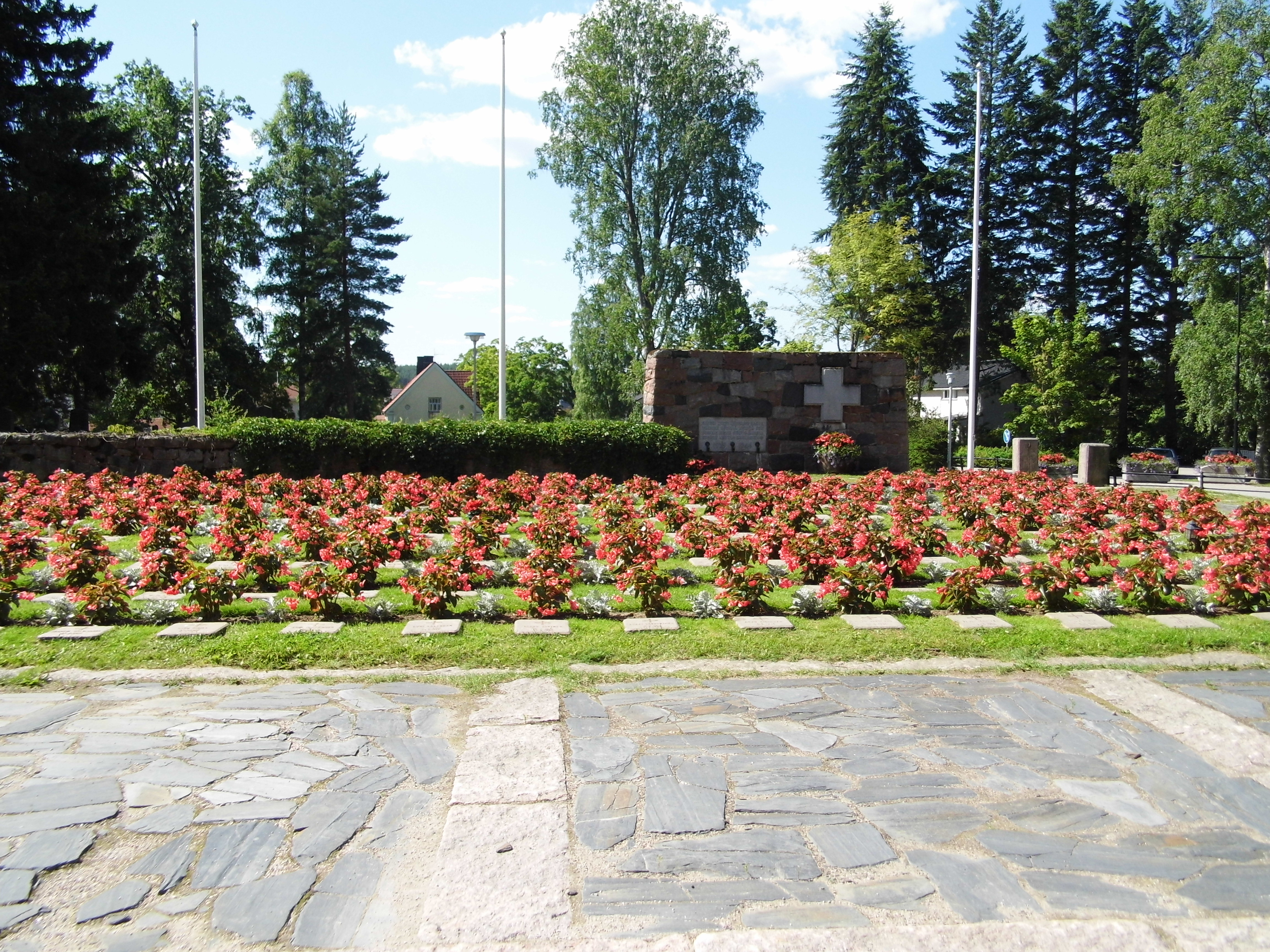 Military cemetary at church in Orimattila, Finland